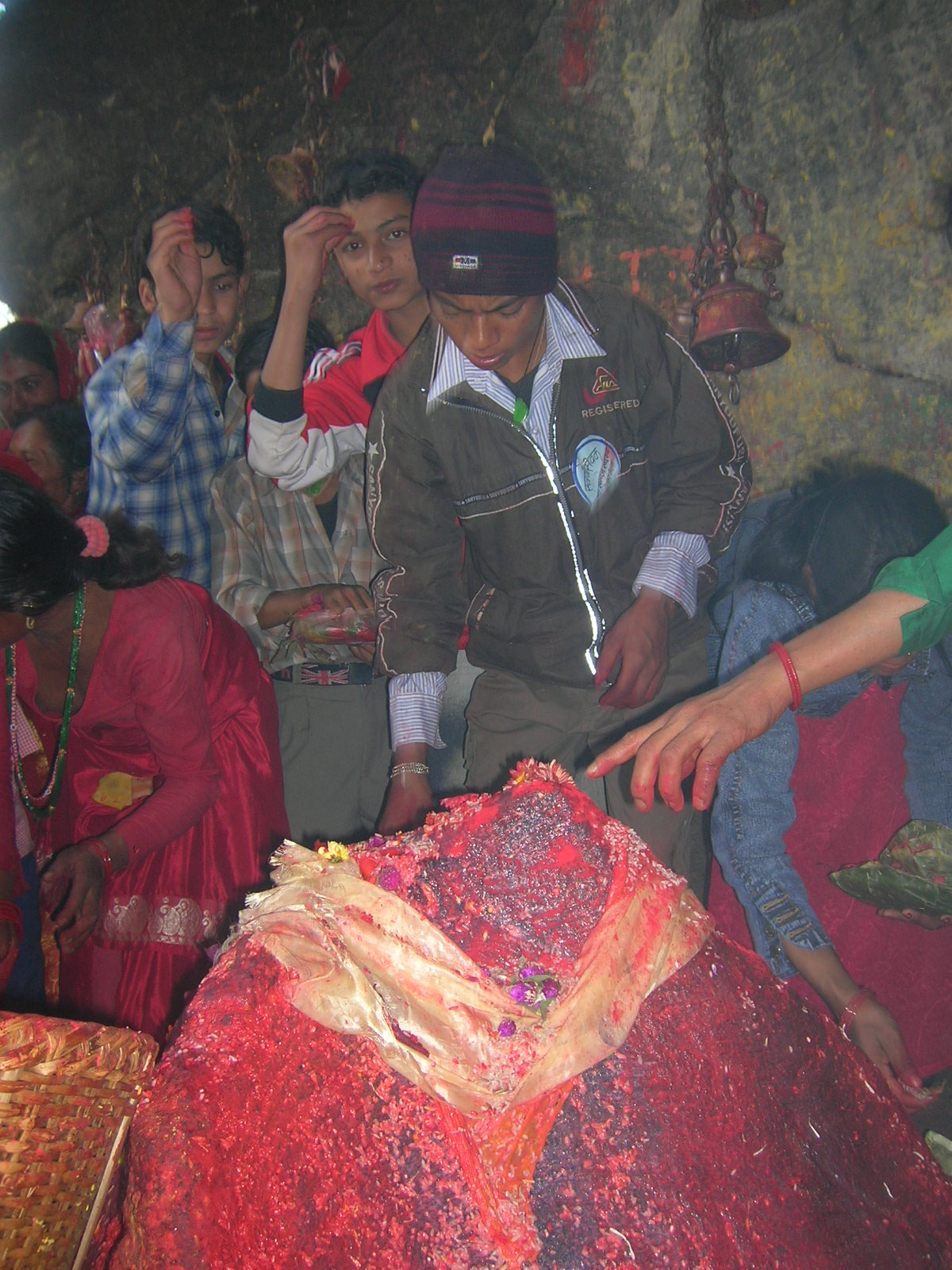 A Shiva Temple in Nuwakot District of Nepal.